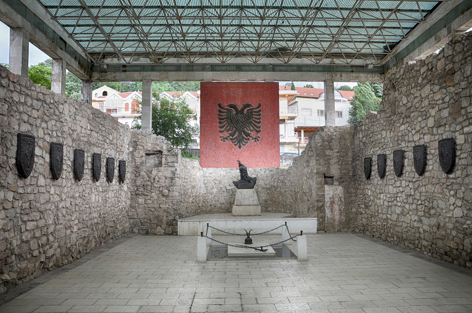 The Skanderbeg Memorial in Lezhë, Albania